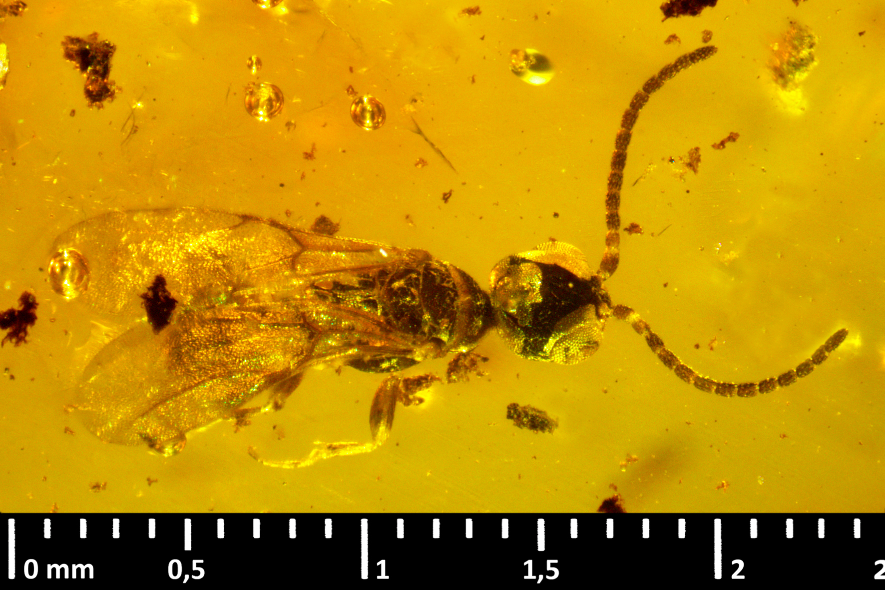 The Rhabdepyris gallicus holotype specimen in dorsal view. Ypresian, Eocene; Oise Amber, Le Quesnoy, Houdancourt, Oise, Picardie France Muséum national d'Histoire naturelle specimen MNHN.F.A30297